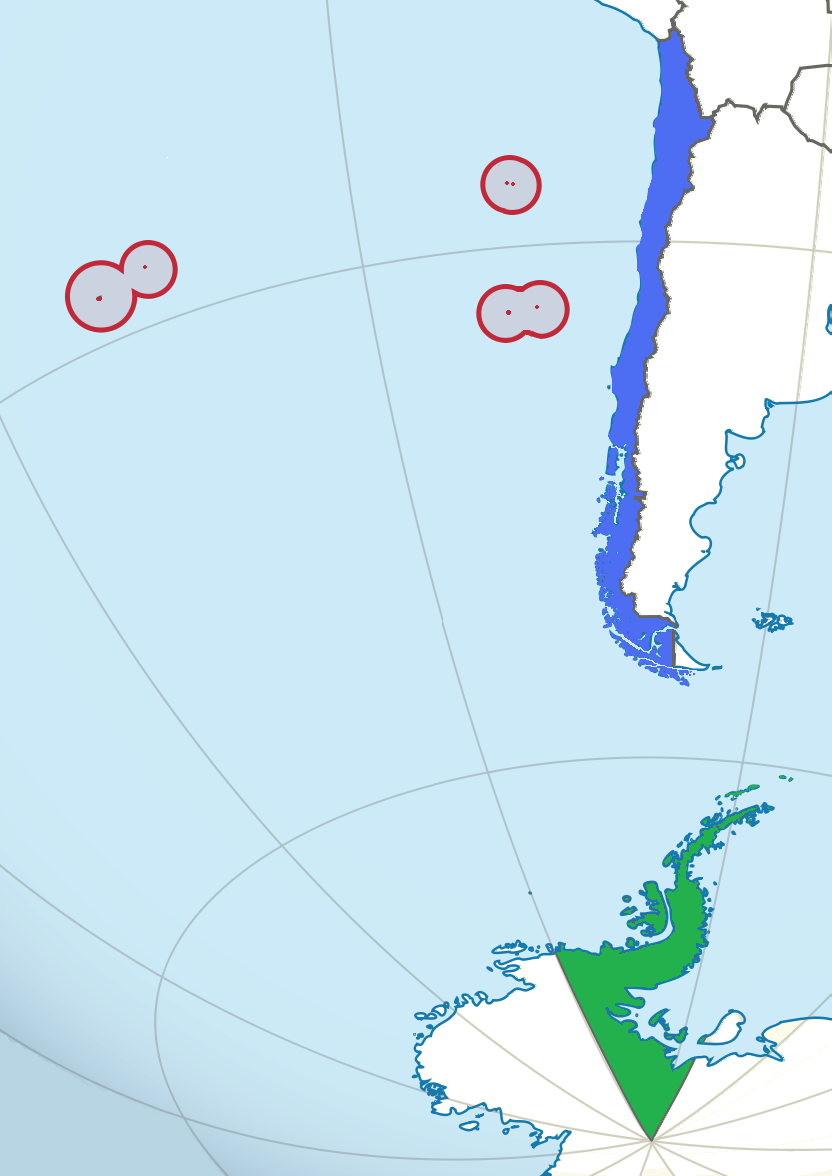 The three areas of Chile: In blue: Chile Continental In red: Chile Islander In green: Chilean Antarctica.